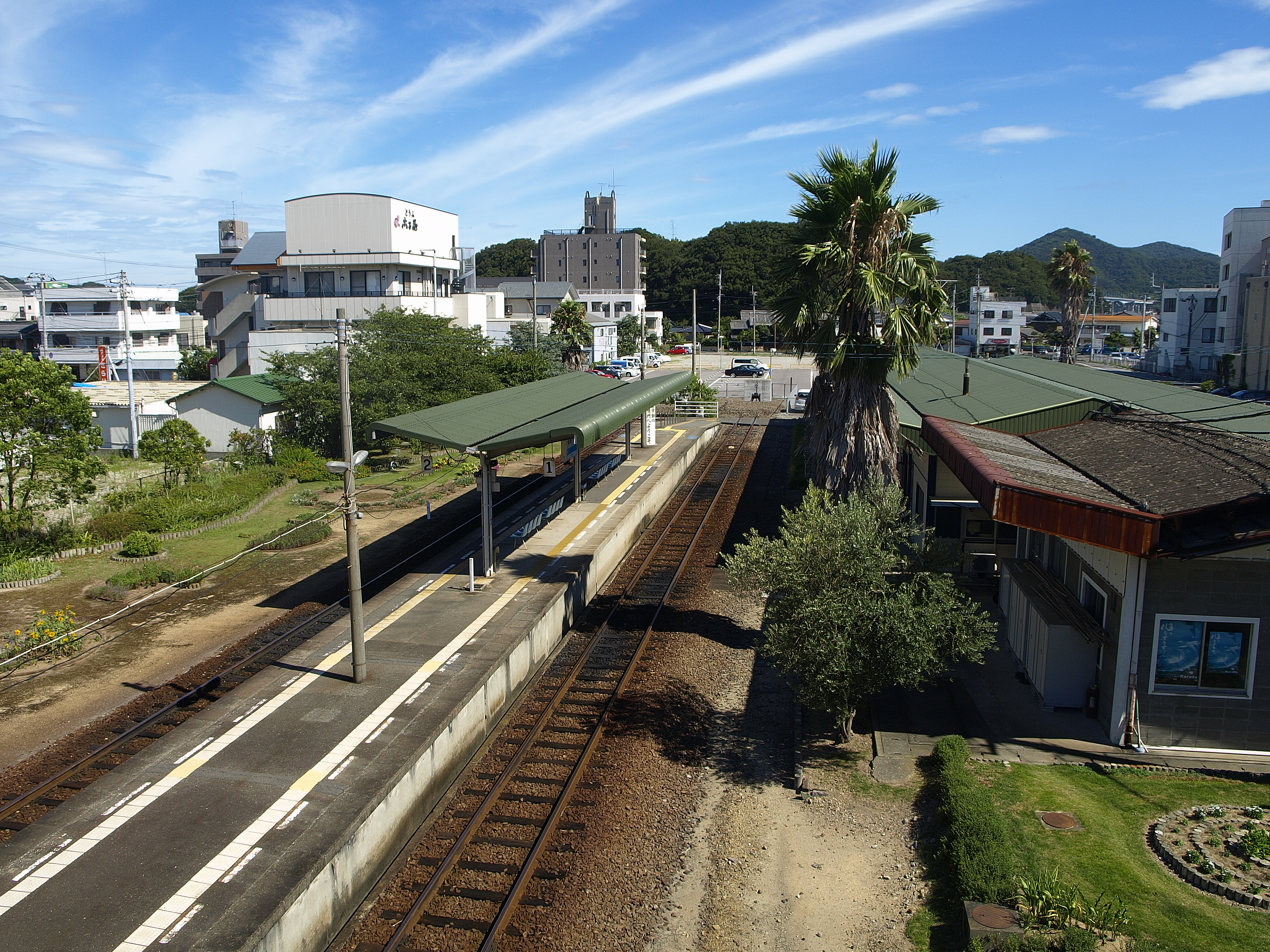 Naruto railway station overview ,Tokushima, Japan.